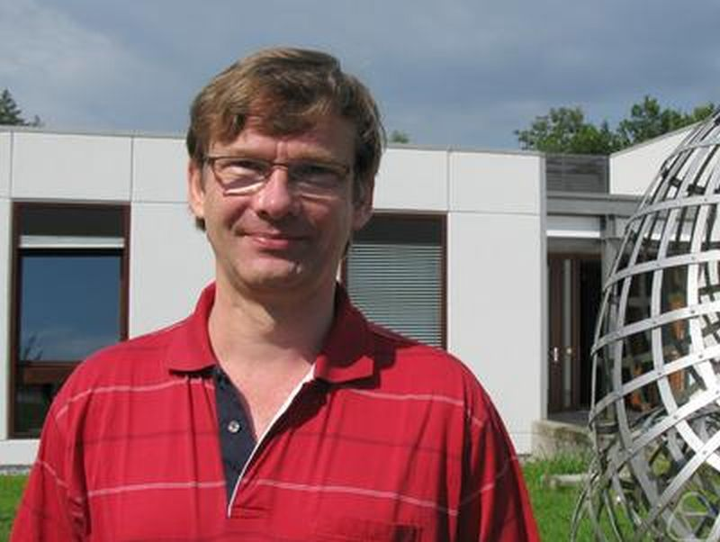 Bernhard Leeb, Oberwolfach 2011